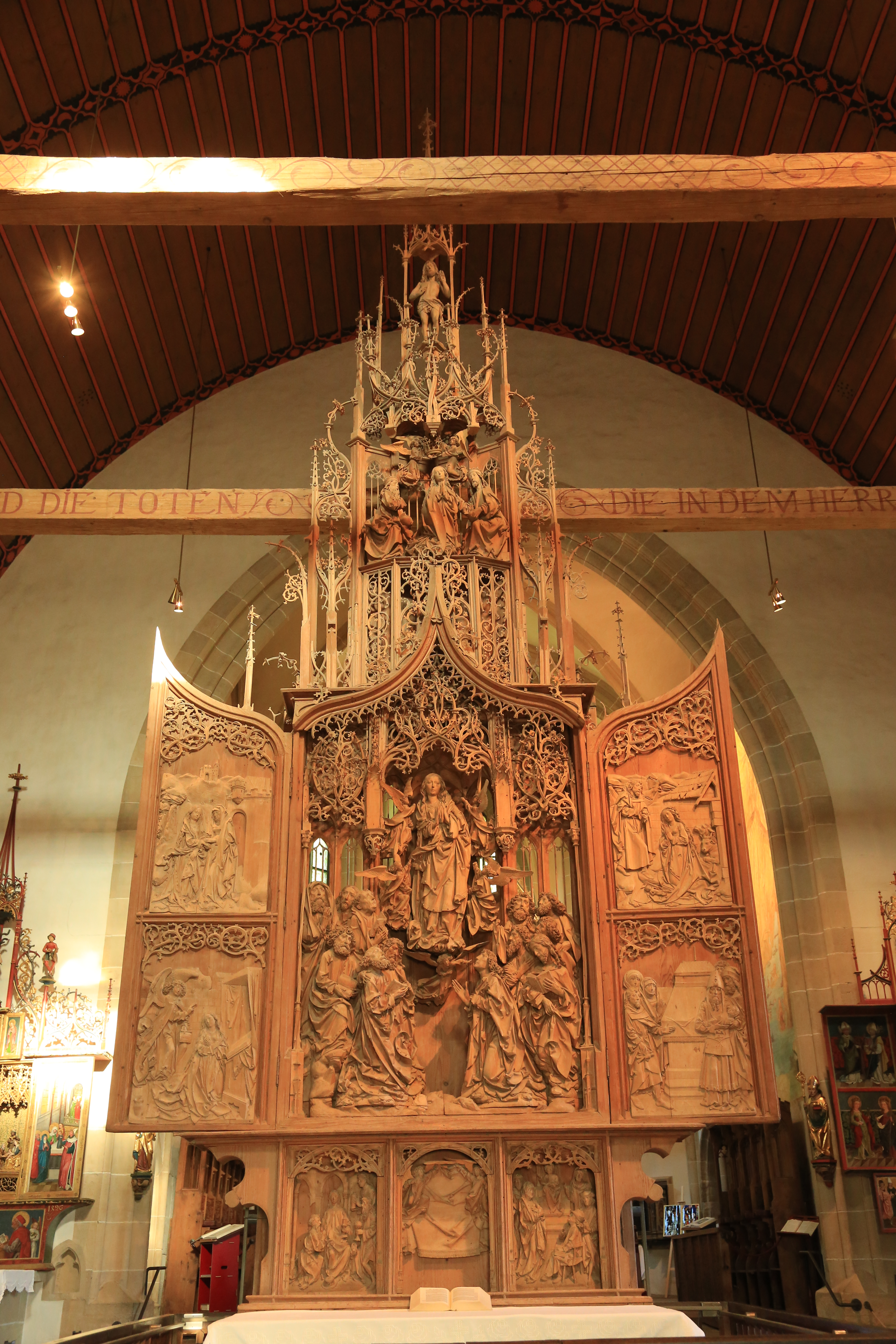 Interior of Herrgottskirche Creglingen, Germany. Virgin Mary's retable by Tilman Riemenschneider.